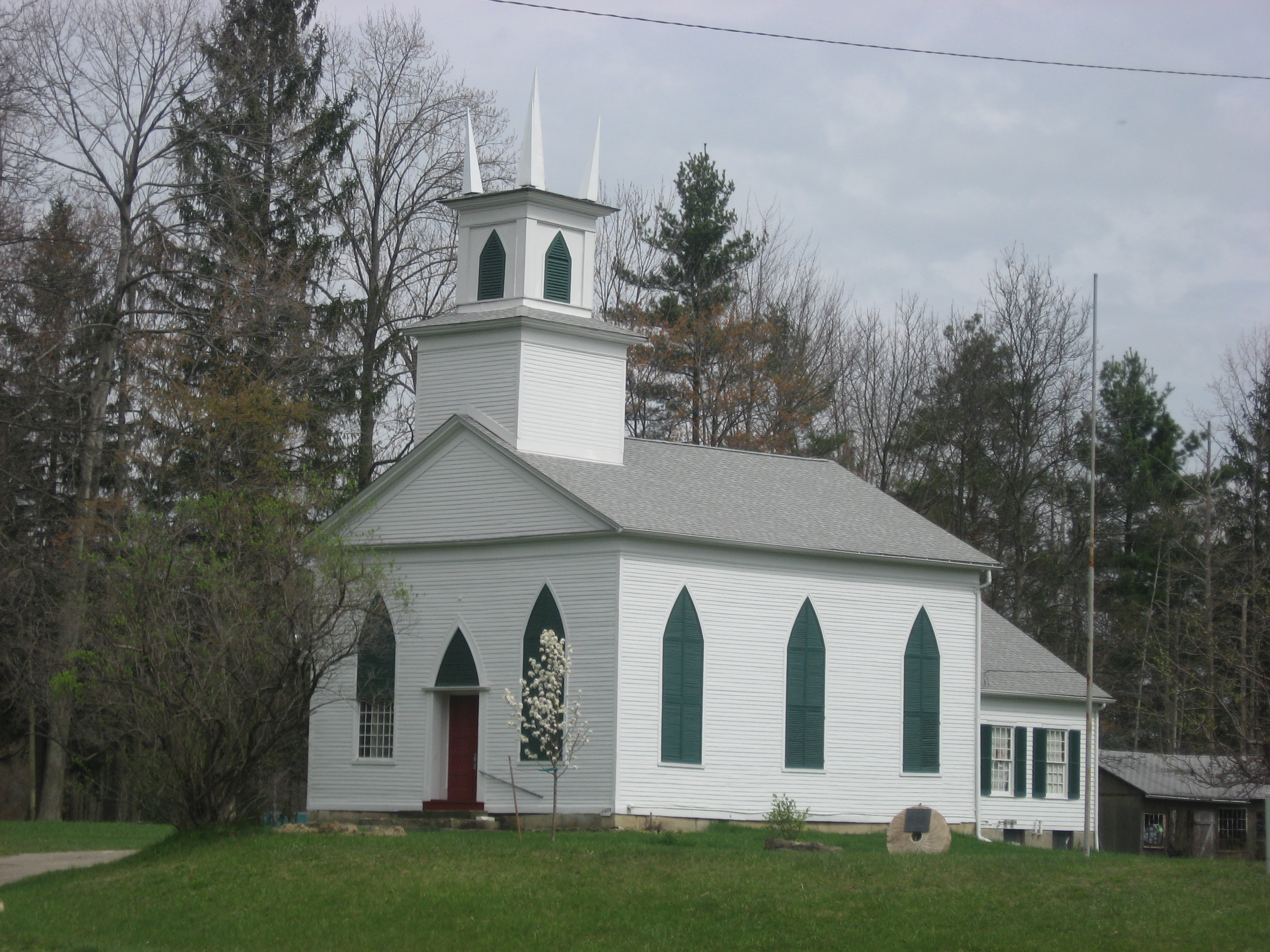 Front and southern side of the former Windsor Mills Christ Church Episcopal, located on the northeastern corner of the junction of U.S. Route 322 and Wiswell Road at Windsor Mills in Windsor Township, Ashtabula County, Ohio, United States. Built in 1832 and since converted into a museum, it is listed on the National Register of Historic Places.